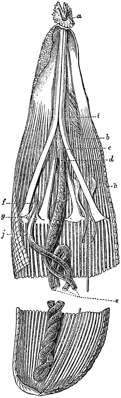 Sipunculus nudus, L., with introvert and head fully extended, laid open by an incision along the right side to show the internal organs. See legend below.